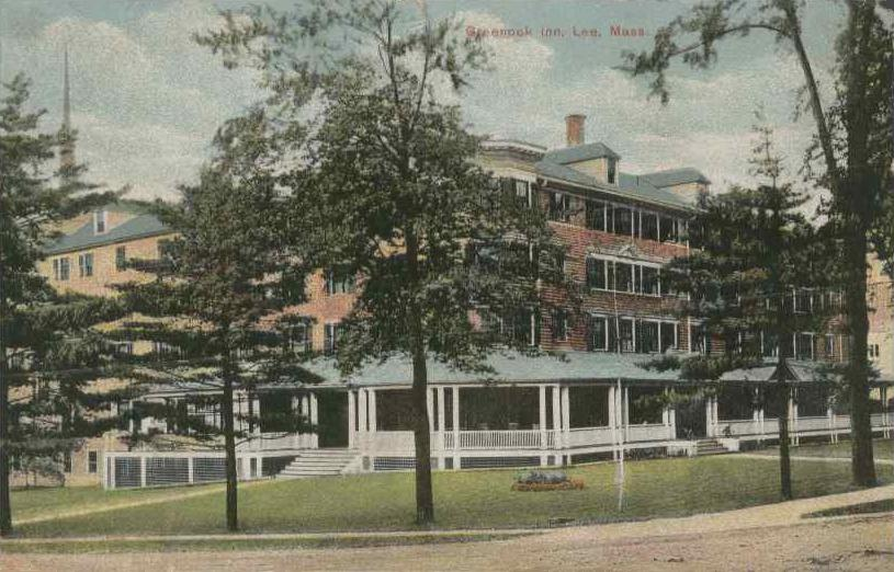 The Greenock Inn, Lee, Massachusetts